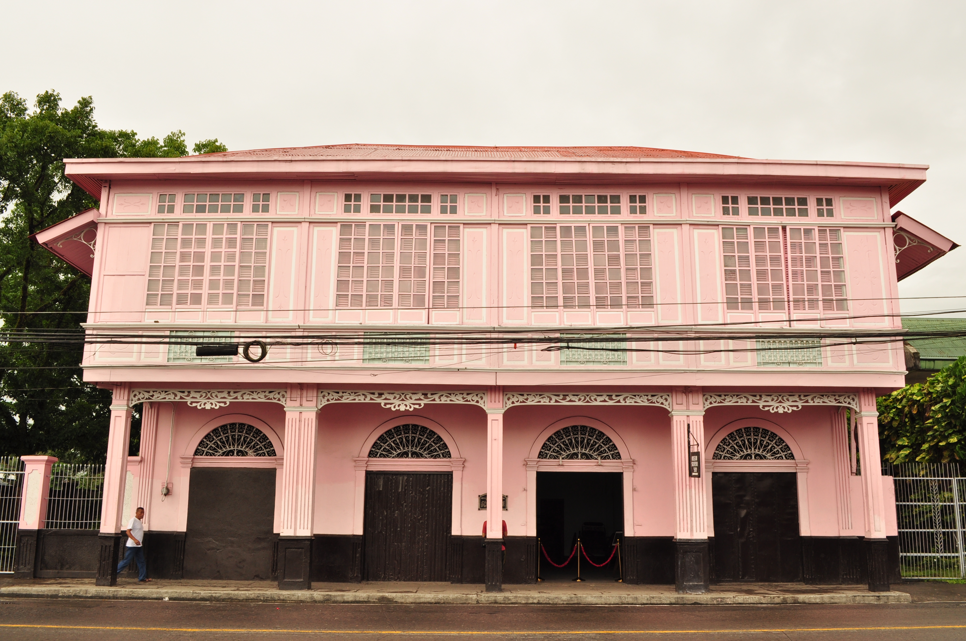 Bernandino Jalandoni Ancestral House, Silay City, Negros Occidental